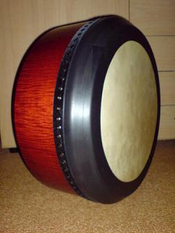 modern bodhran